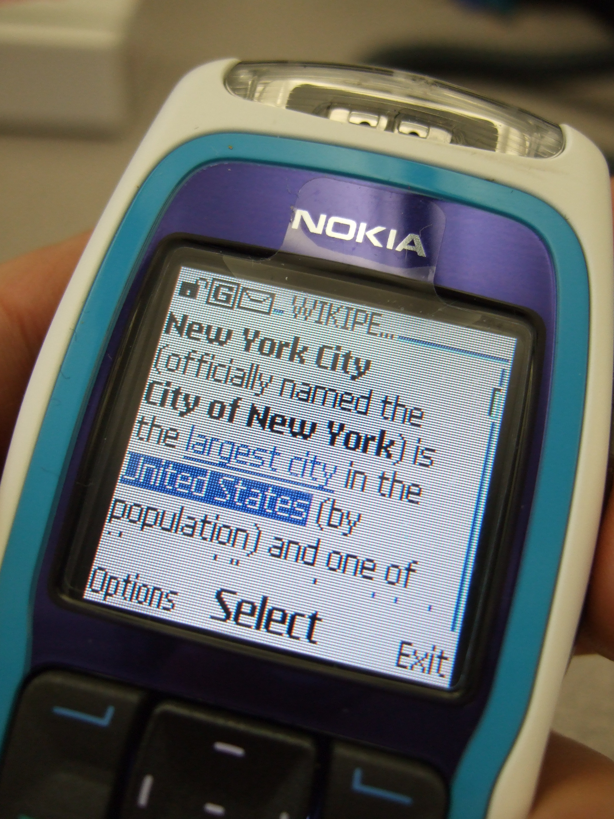 Reading the mobilized Wikipedia article on Nokia 3220Reading the mobilized Wikipedia article on-phone